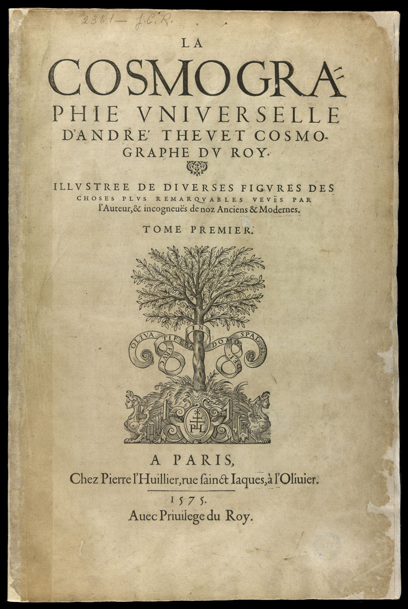 Cover page of La cosmographie universelle (André Thévet)